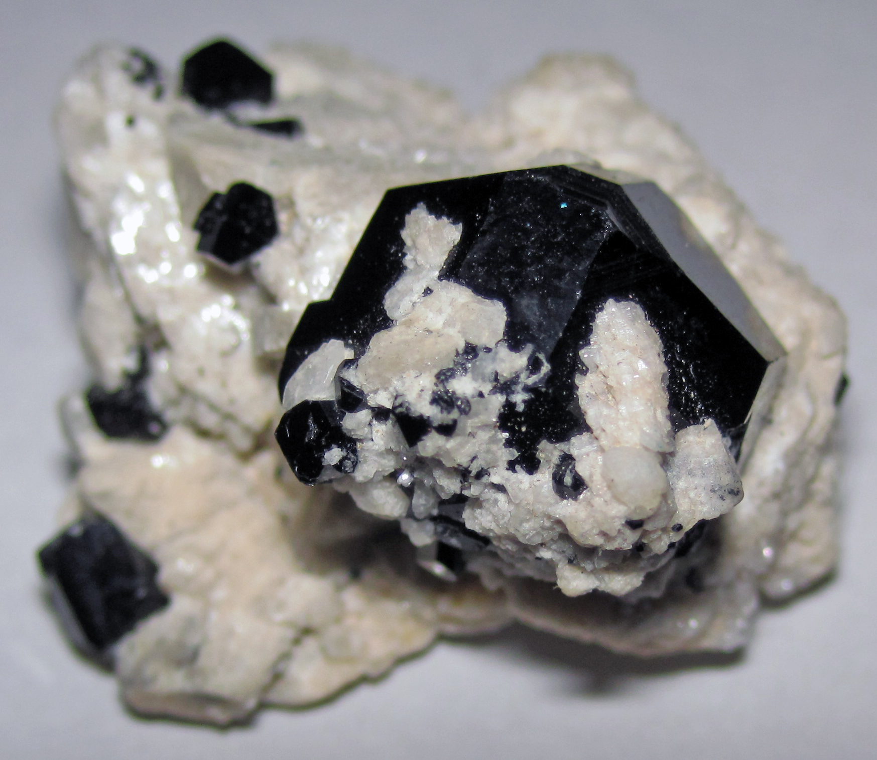 Tourmaline-feldspar-quartz from the Cretaceous of Namibia. (~2.45 cm across at its widest) Black = schorl tourmaline Light-colored material - microcline feldspar and quartz This is a schorl tourmaline-rich sample from the Erongo Granite of Namibia. The Erongo Granite is a subvolcanic ring dike granite. It represents magma that cooled underneath an ancient, now-deeply eroded volcano. Geologic unit: Erongo Granite, Erongo Complex (Erongo Volcanic Complex), Damara Orogenic Zone (Damara Belt), ~earliest Cretaceous, 144 Ma Locality: unrecorded site at Lions Head (= southern Erongo Complex), 30 to 40 km northwest of the town of Karibib, Erongo Mountains, Karibib District, Erongo Region, northwest-central Namibia